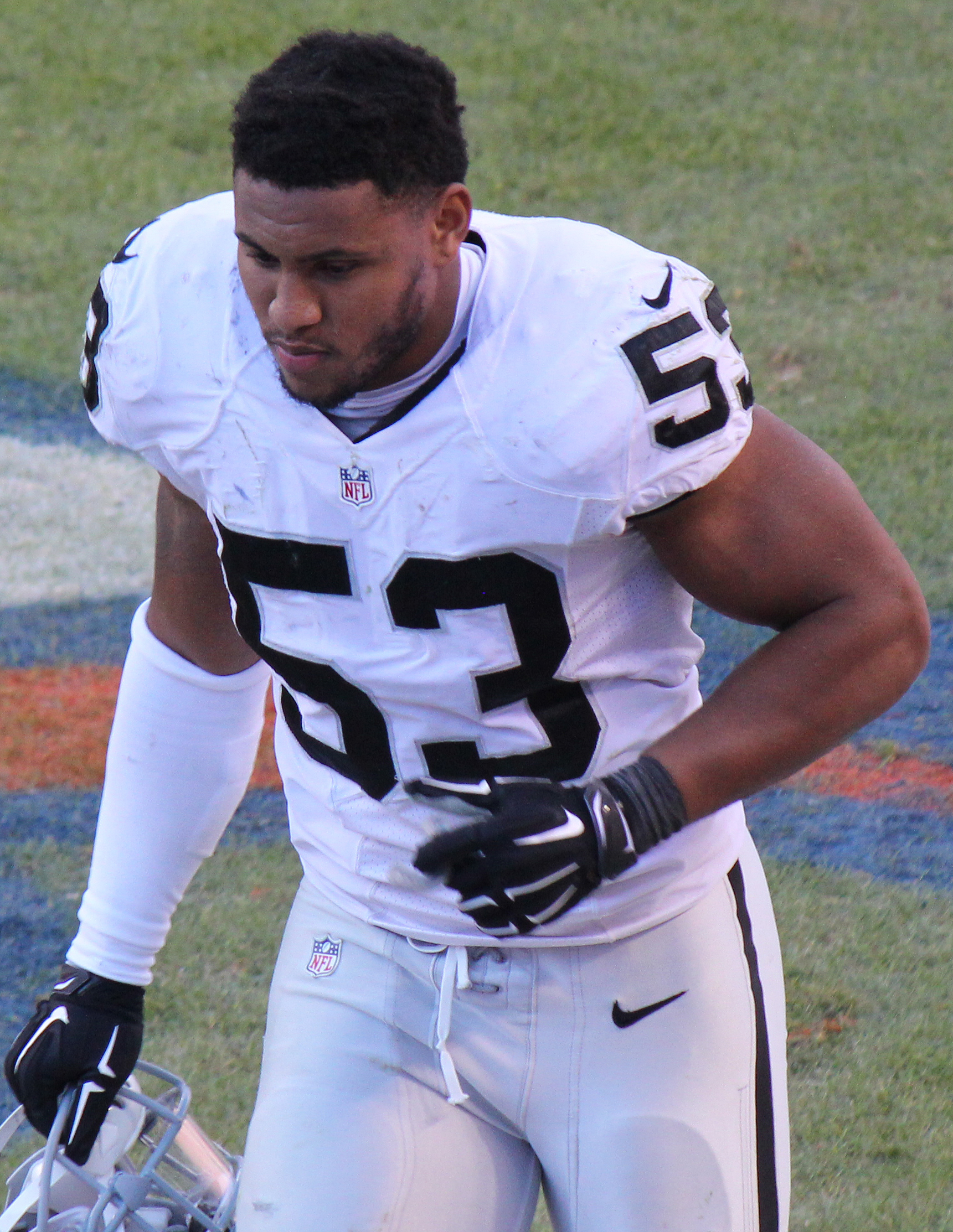 Malcolm Smith, a player on the National Football League.